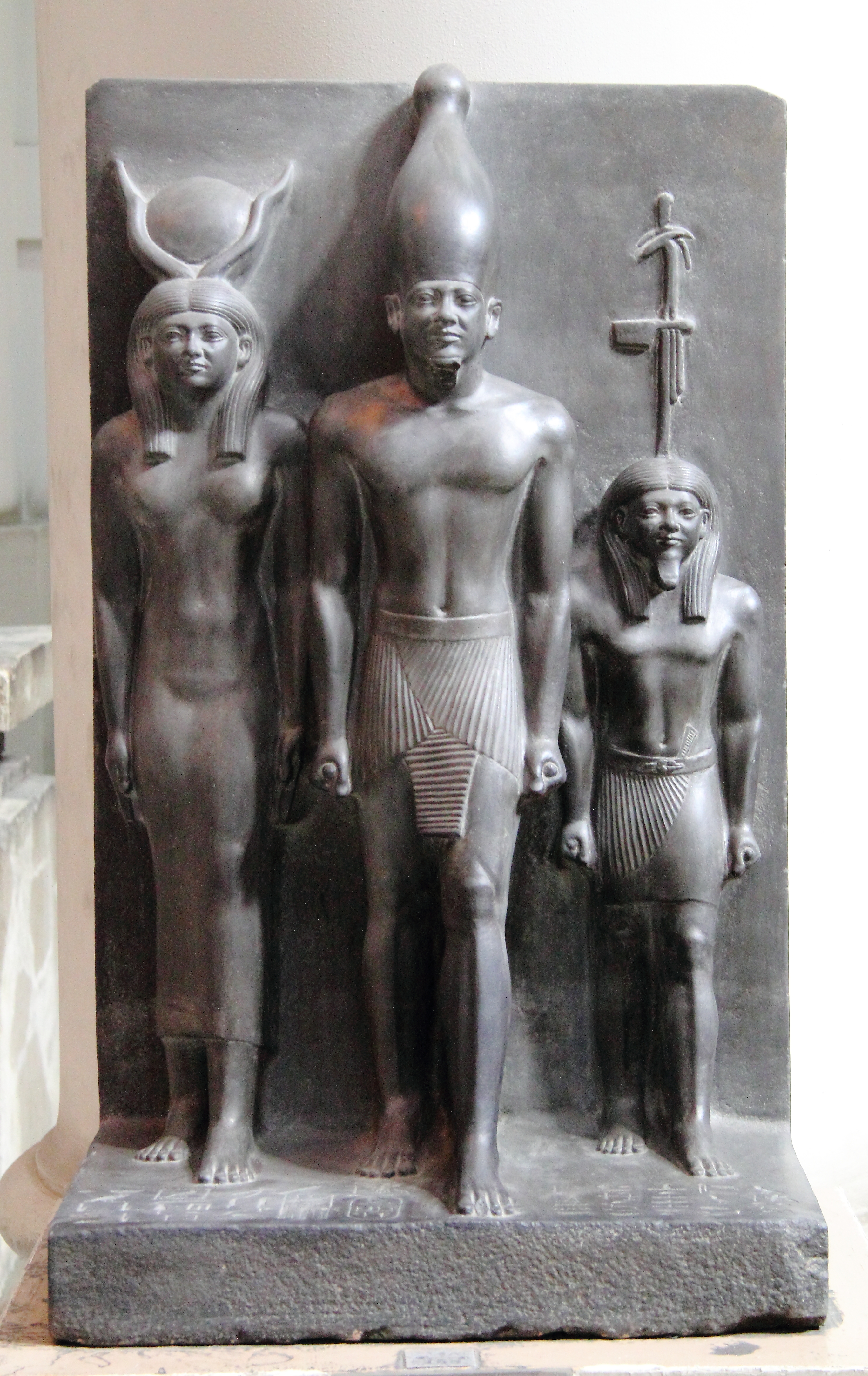 Egyptian Museum: statue of king Menkaure together with goddess Hathor and a nome deity